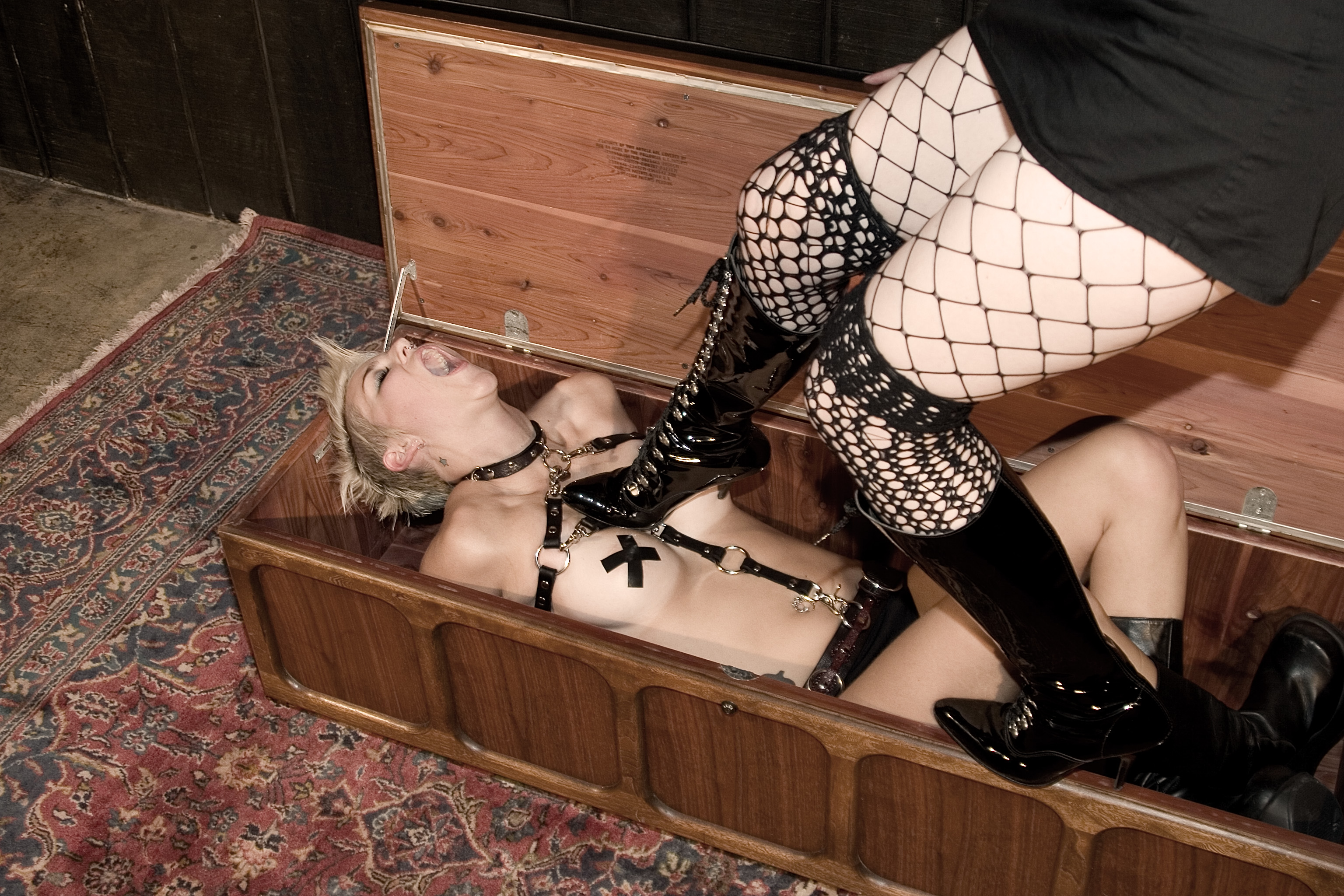 A woman dressed in a black leather harness being stepped on by another, pushing her into a box (coffin?)